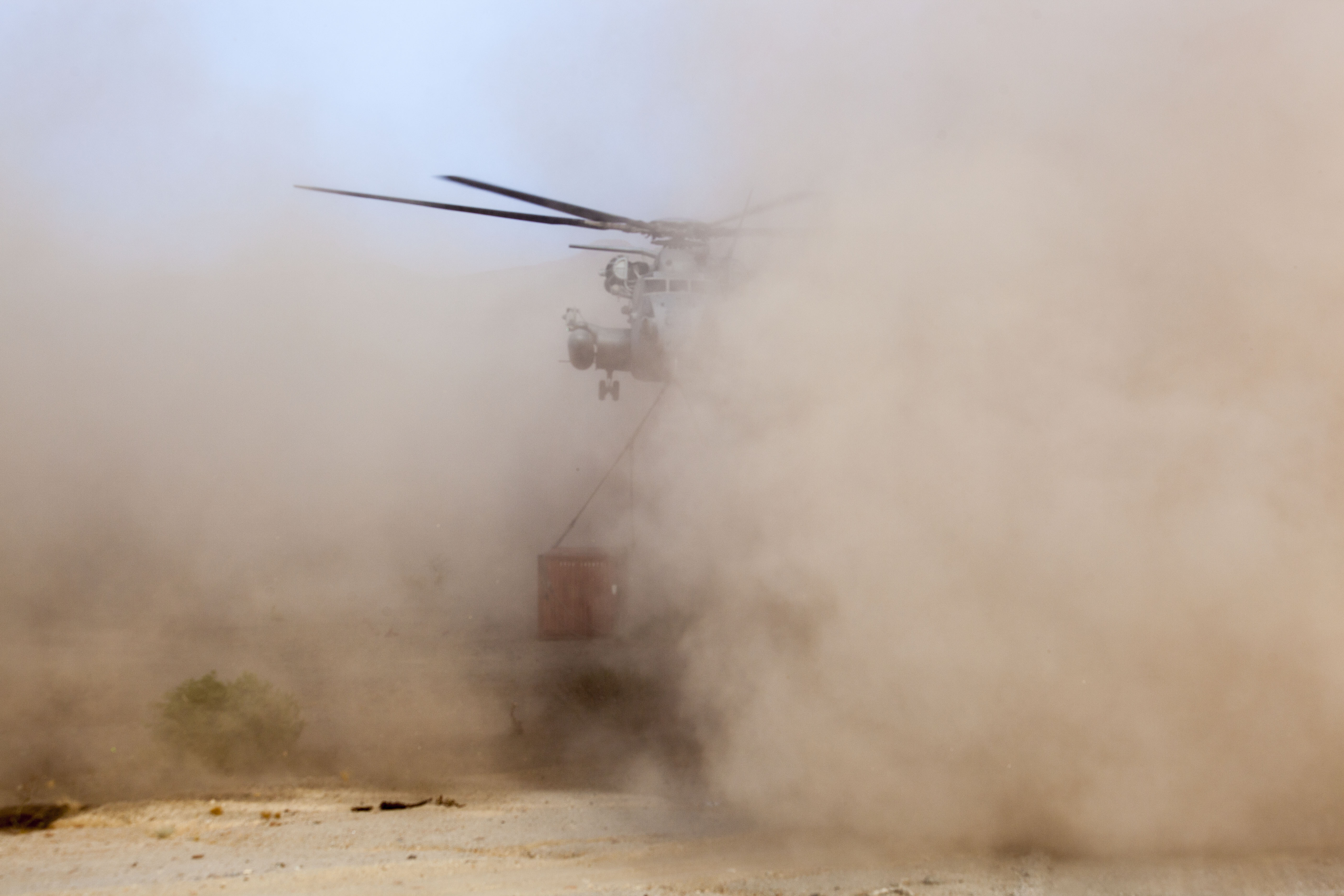 An CH-53E assigned to Marine Medium Tiltrotor Squadron (VMM) 266 Reinforced, 26th Marine Expeditionary Unit, transports a shipping container that will be used as a training target on a range in Djibouti, August 2, 2013. The 26th MEU is a Marine Air-Ground Task Force forward-deployed to the U.S. 5th Fleet area of responsibility aboard the Kearsarge Amphibious Ready Group serving as a sea-based, expeditionary crisis response force capable of conducting amphibious operations across the full range of military operations. (U.S. Marine Corps photo by 1st Lt. Gerard R. Farao/Released)